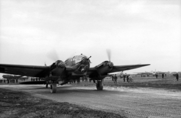 A captured German Heinkel He 111H aircraft at Celone, Italy, in 1944. The Heinkel caused some excitement at an the airfield in Italy used by RAAF Handley Page Halifax crews when it circled the airfield and came in to land.